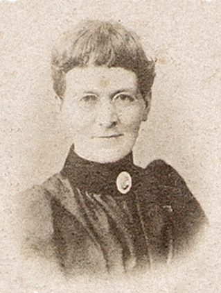 Emmy Mühlberg Friedrichs Mühlberg wife